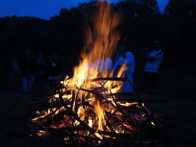 Midsummer fire at San river, Trepcza (Sanok), Poland